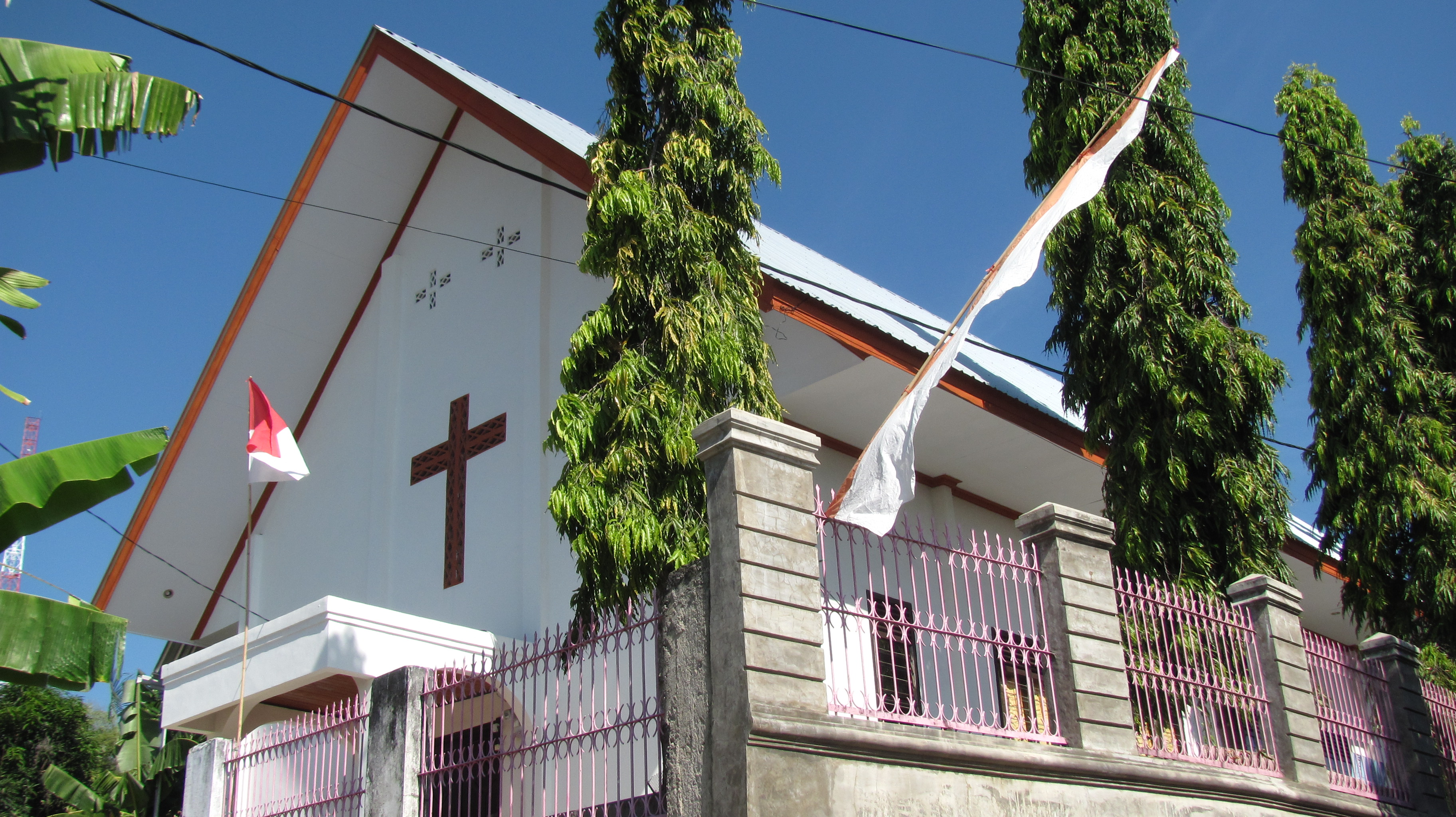 Protestant church, Sengkang, Sulawesi, Indonesia